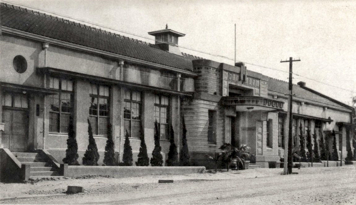 Tōsei-gun yakusho